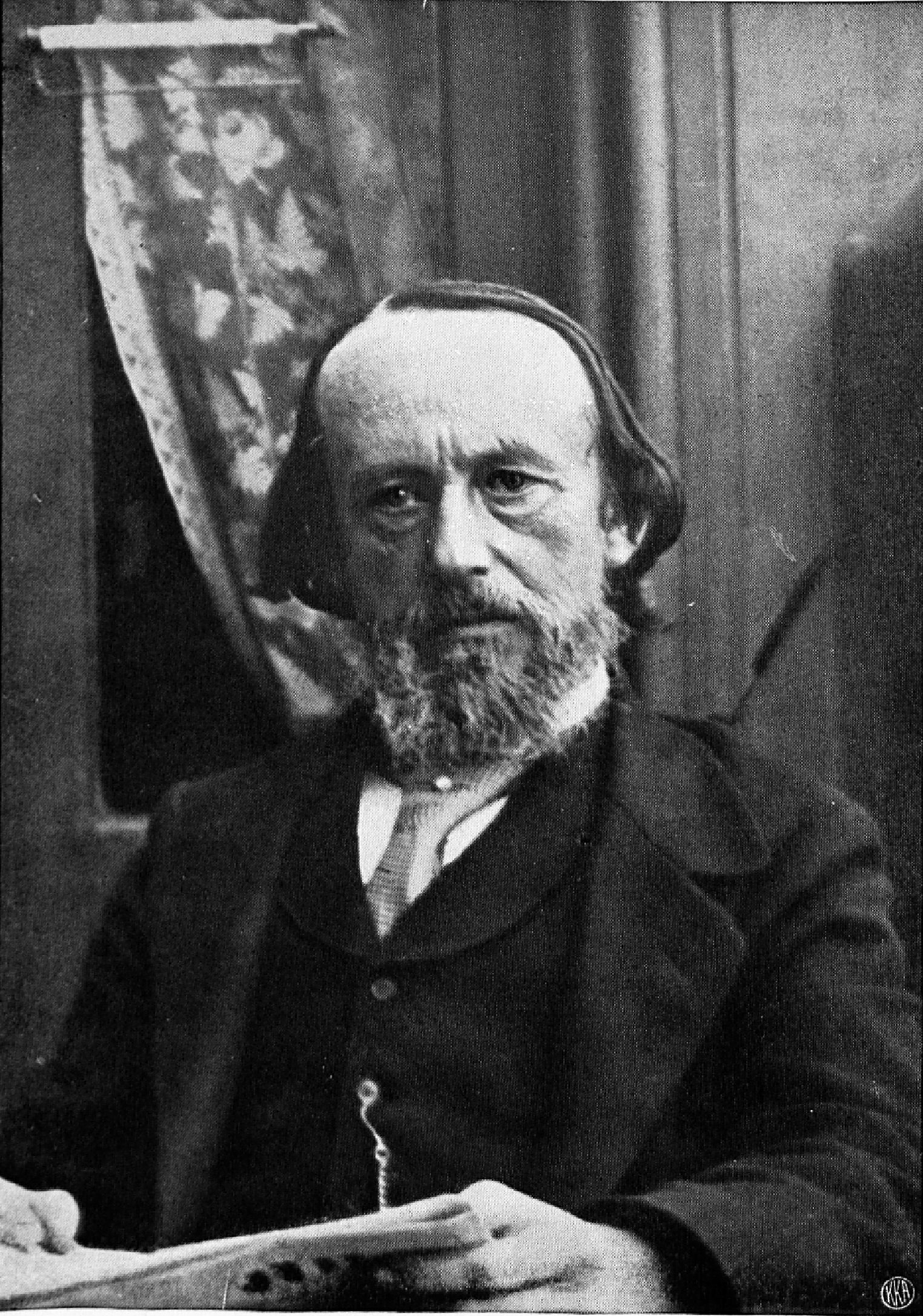 Jacob Jonathan Aars (1837-1908) norwegian educator.